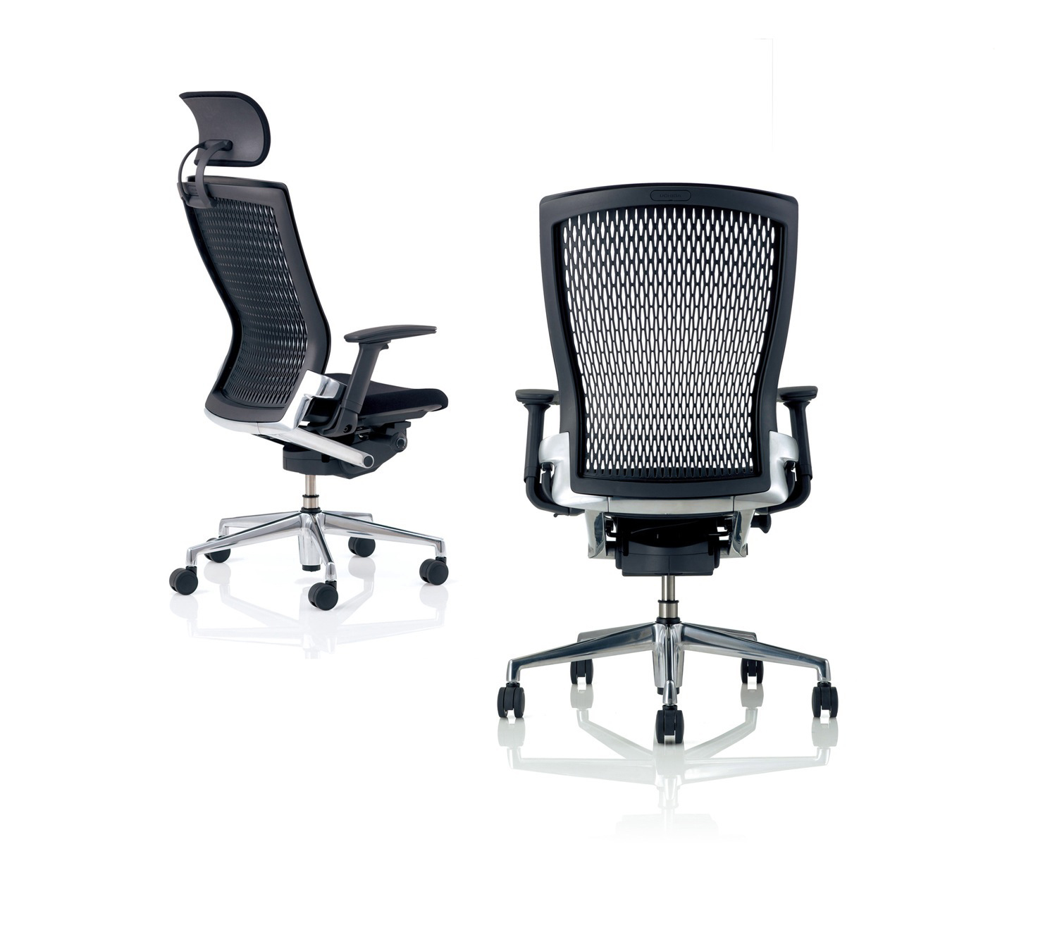 Works of KAWAKAMI Motomi 018-2009